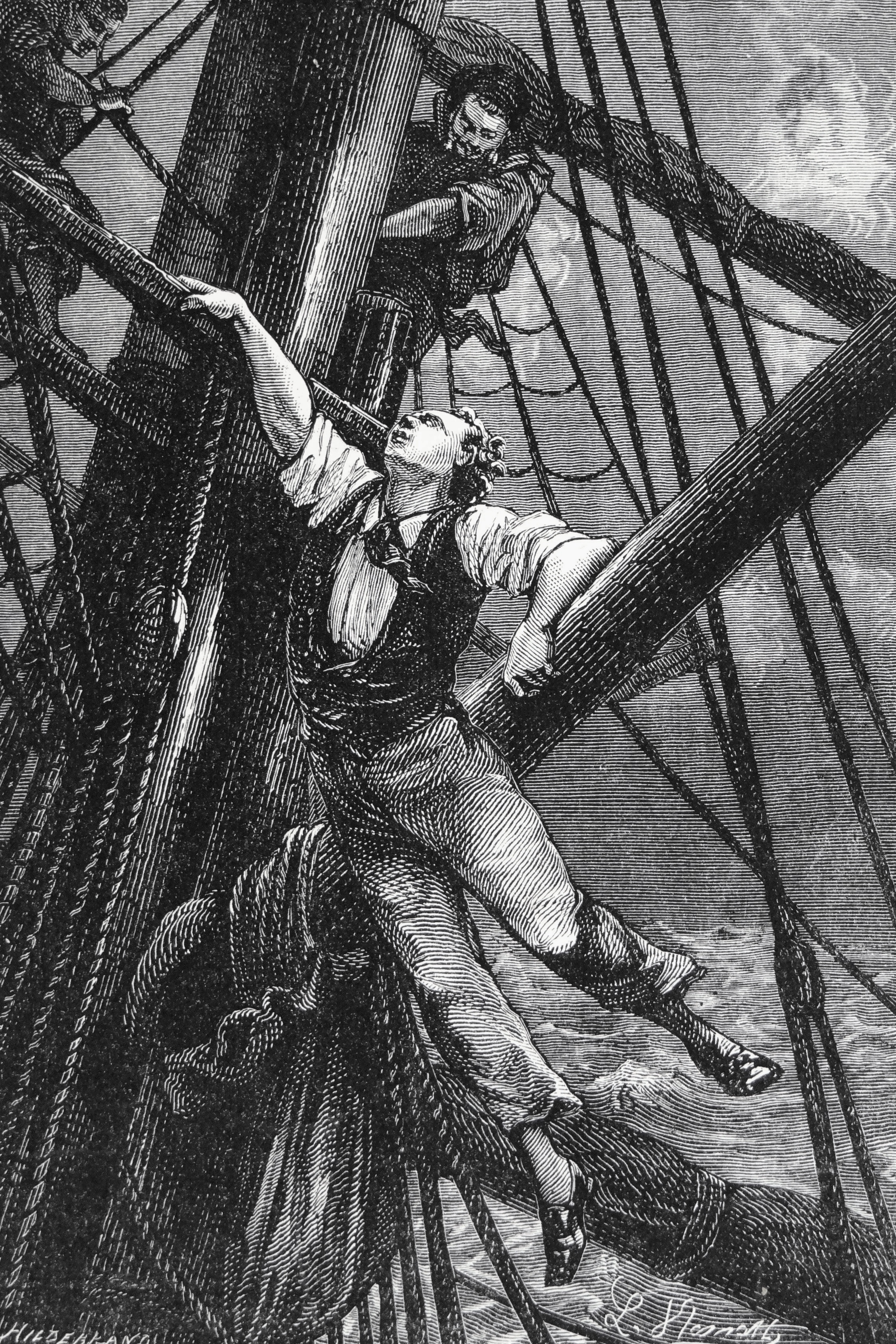 He Took a Hand at Everything and Astonished the Crew. An ilustration from the novel "Around the World in Eighty Days" by Jules Verne painted by Alphonse de Neuville and/or Léon Benett.